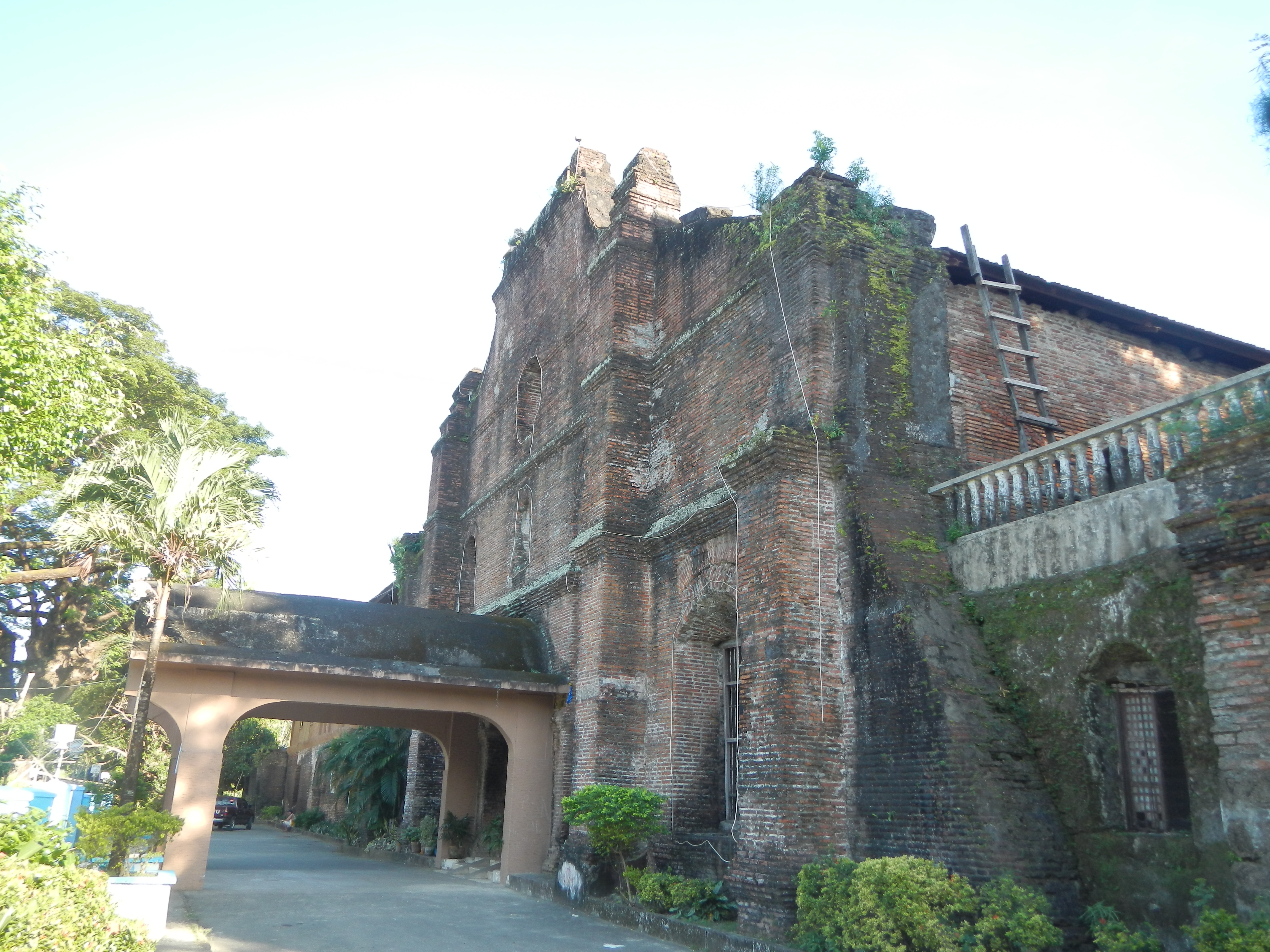 1714 Our Lady of Lourdes Parish Church, Salasa, Roman Catholic Diocese of Alaminos,[1][2][3] Bugallon, Pangasinan[4][5][6]